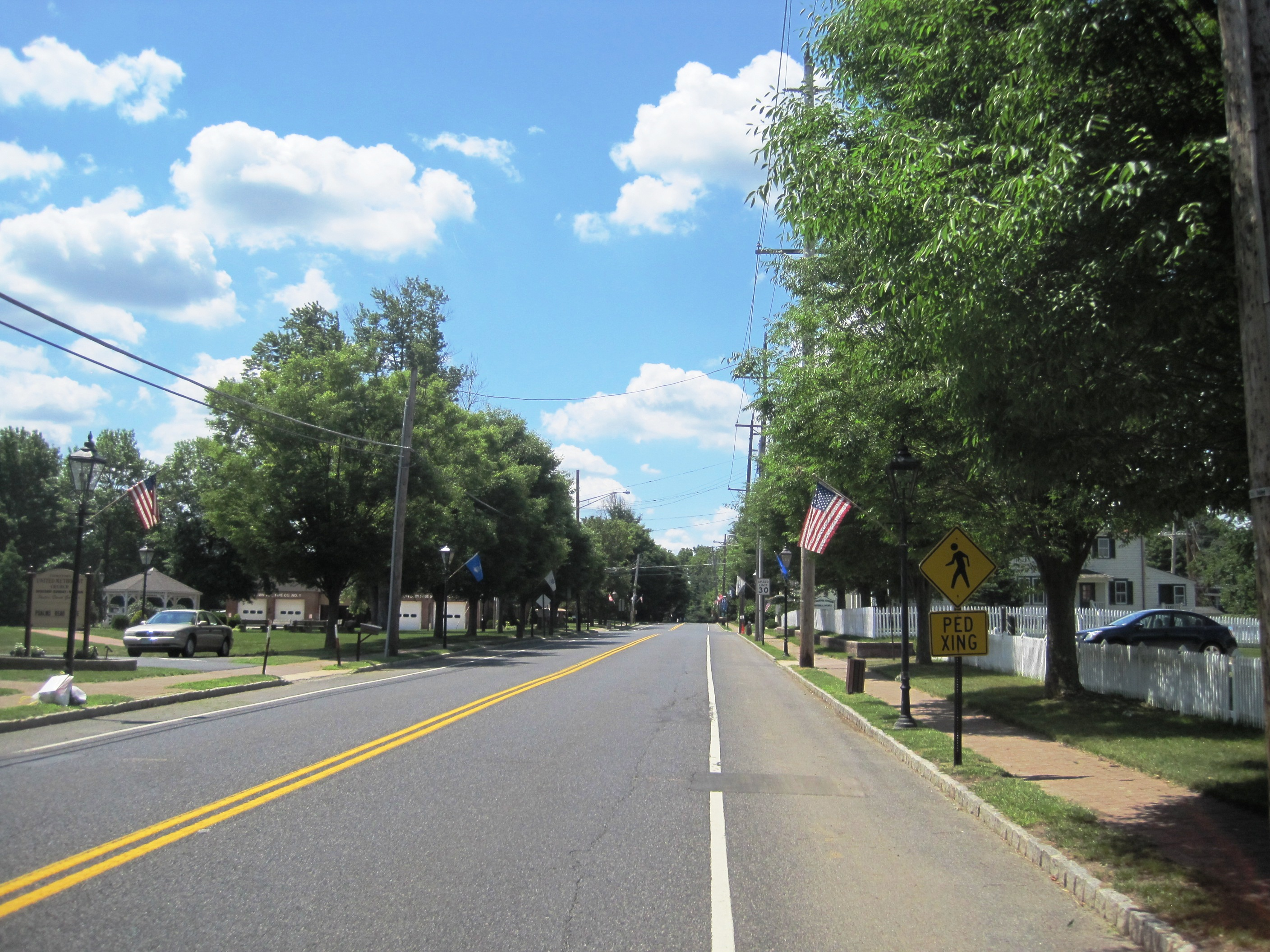 Photo of the unincorporated community of Cookstown, New Jersey within New Hanover Township, Burlington County. Photo taken on westbound County Route 616 (Main Street).